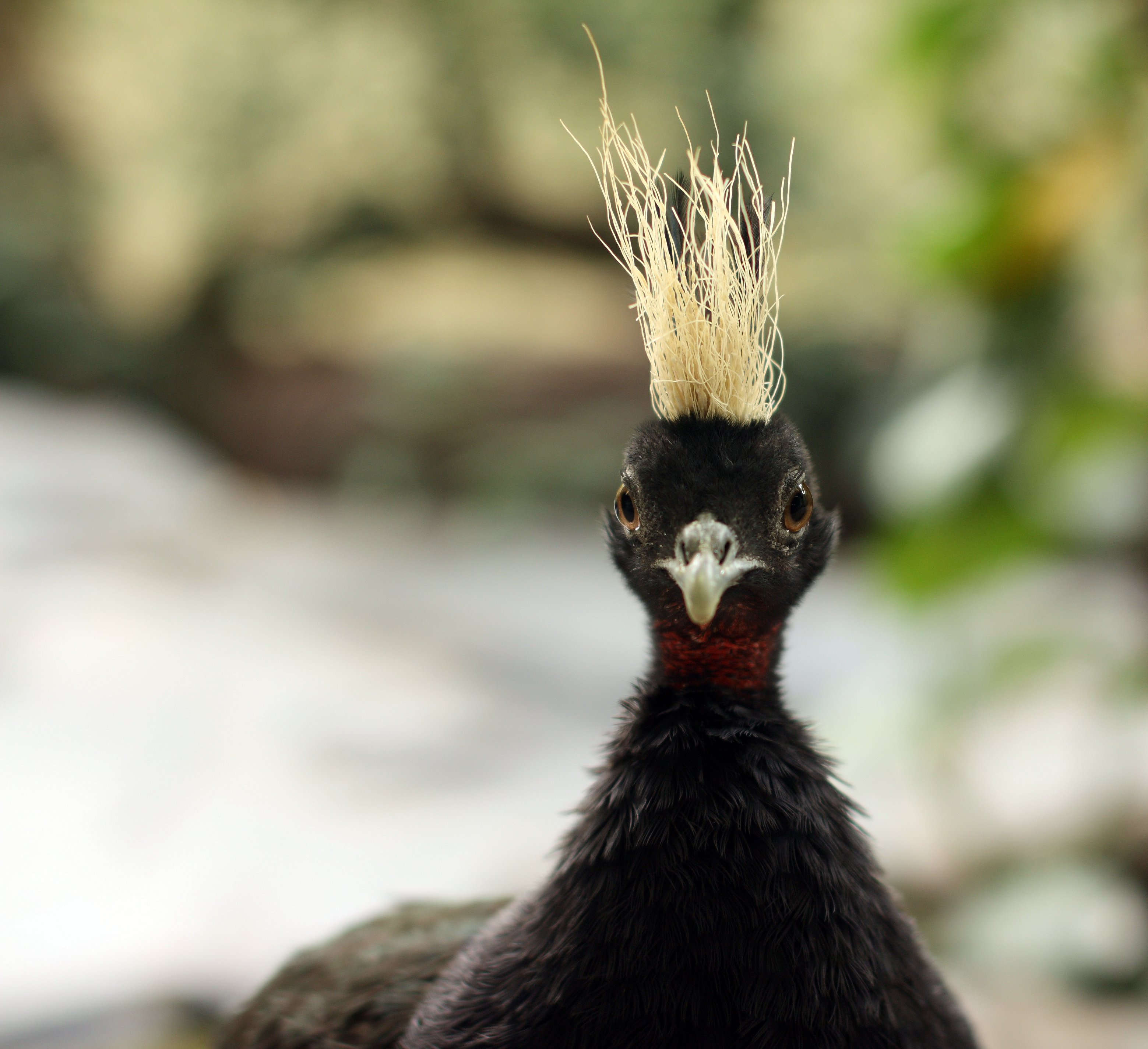 Congo Peafowl (Afropavo congensis)